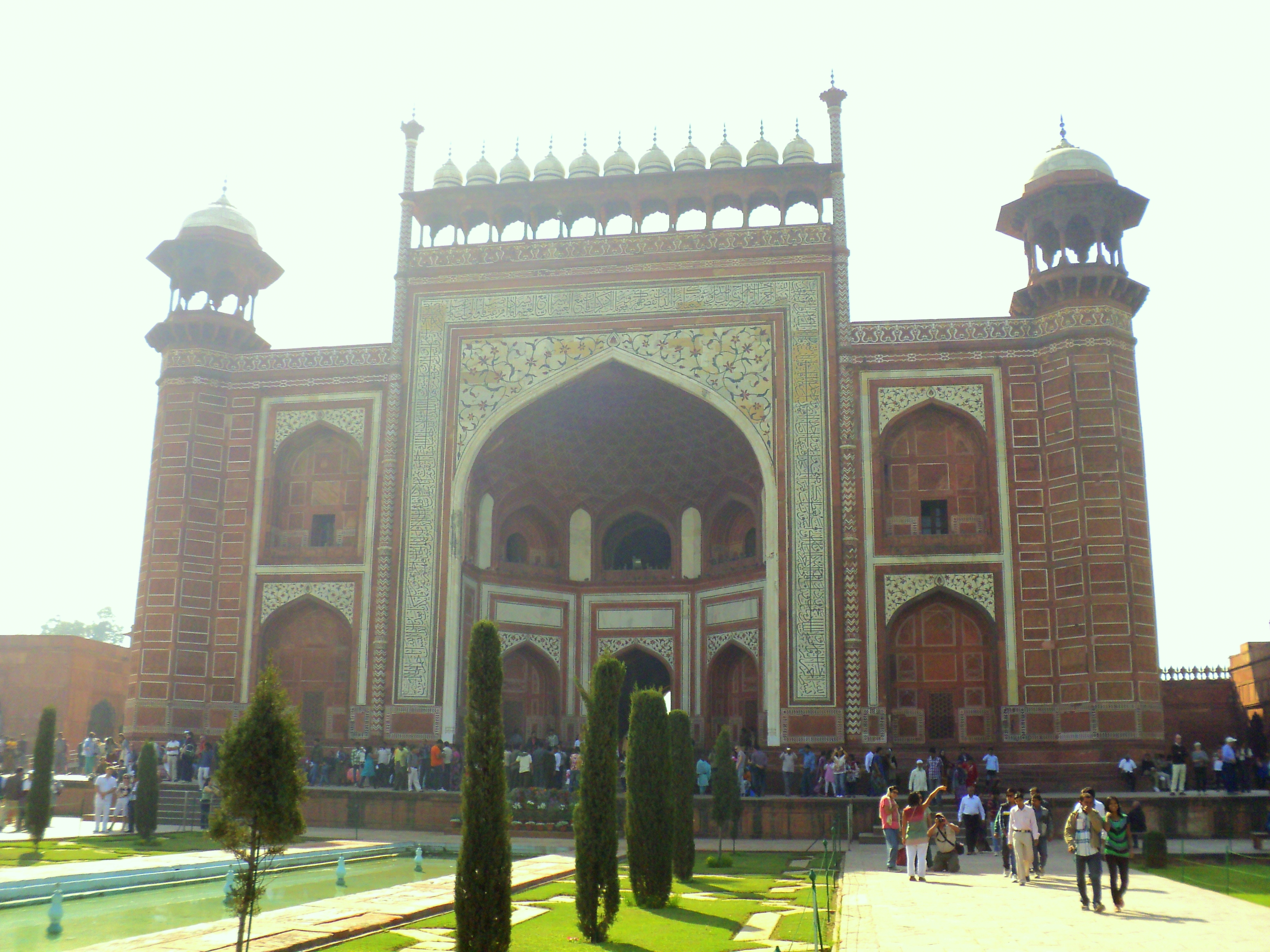 Beautiful gate